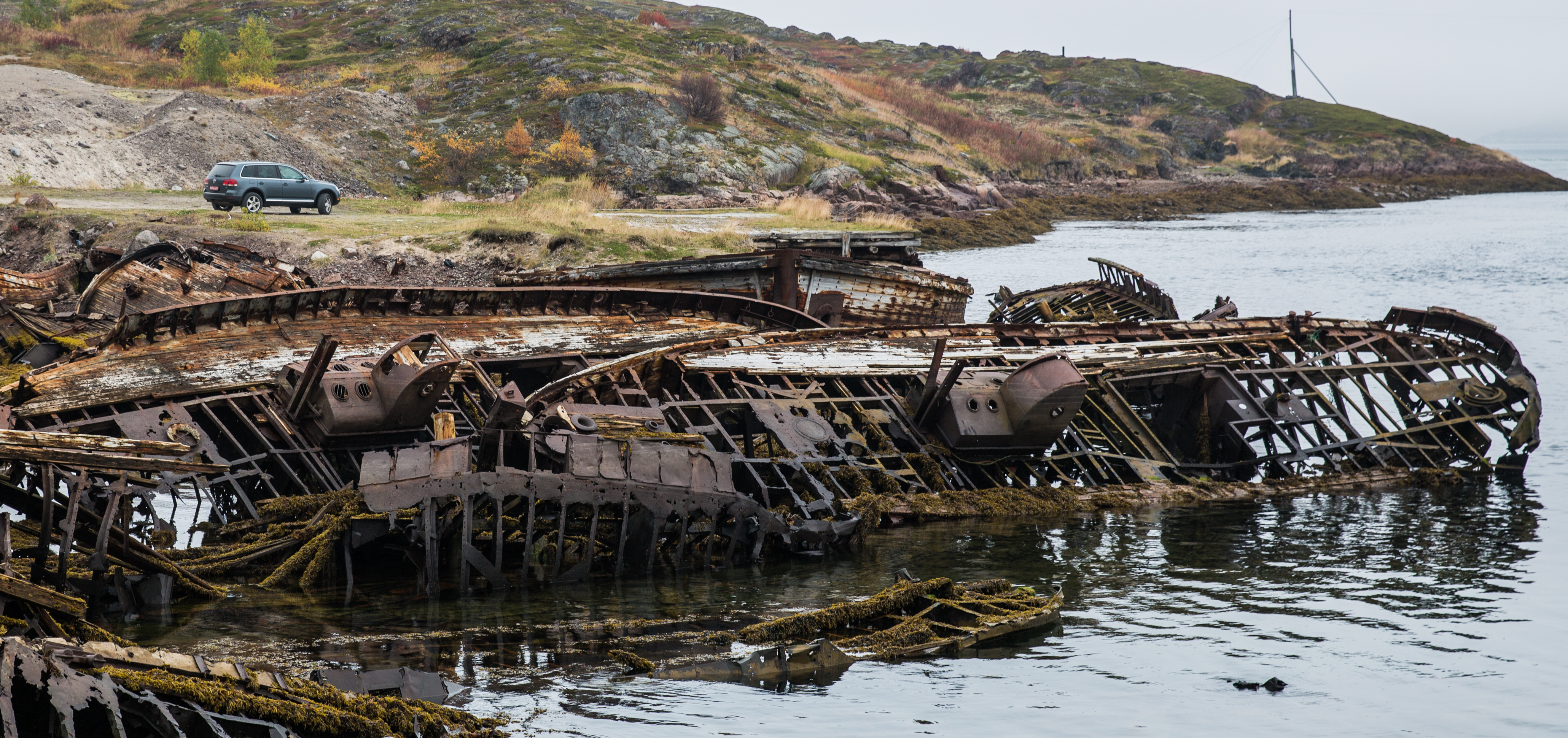 Teriberka, Kola Peninsula